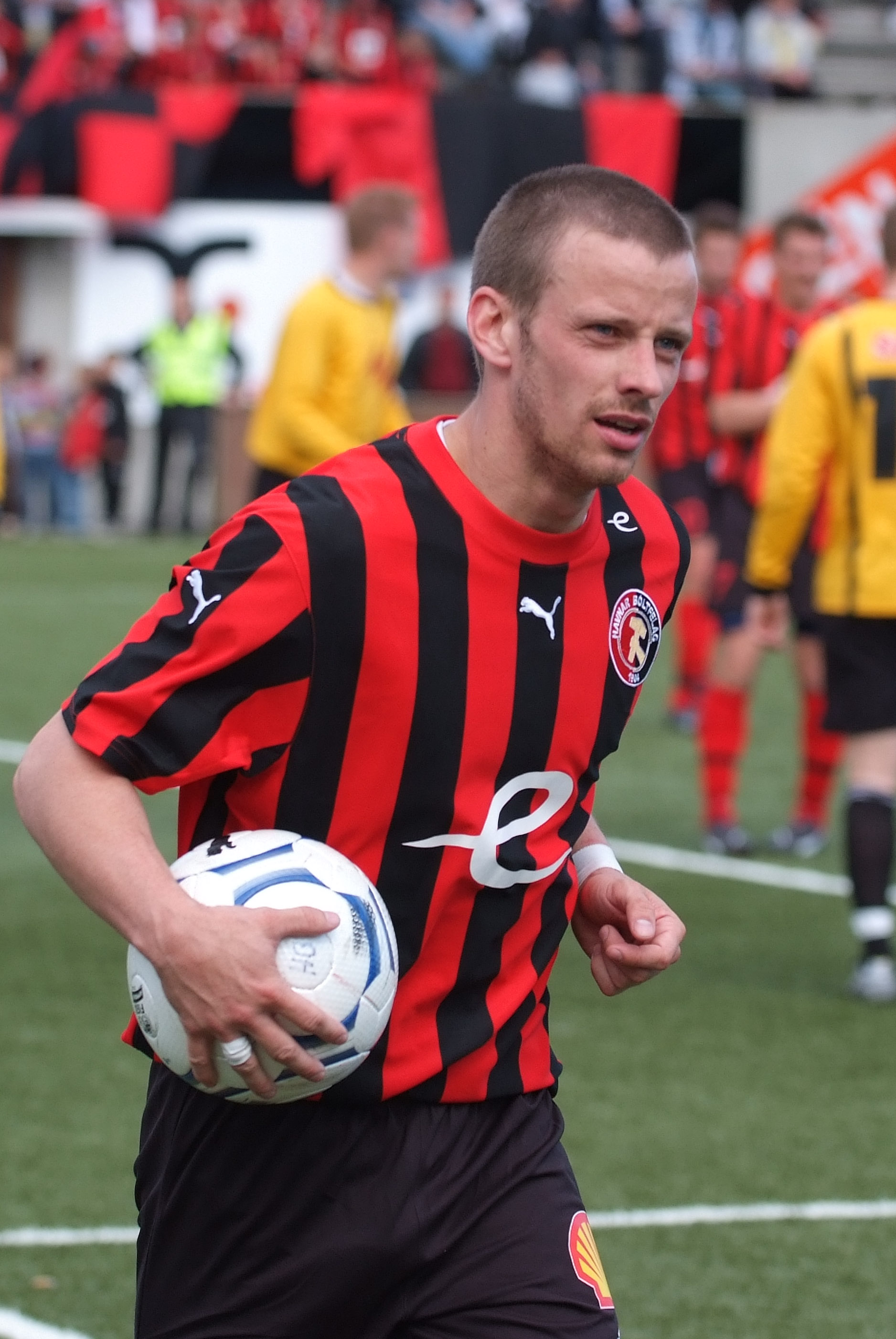 Jákup á Borg, faroese player, while playing for HB Tórshavn